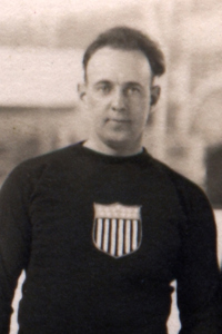 American ice hockey player Raymond Bonney representing the US national ice hockey team at the 1920 Summer Olympics in Antwerp, Belgium. The picture is a crop out of a larger team photo taken inside the ice rink Palais de Glace d'Anvers. The ice hockey tournament at the 1920 Summer Olympics took place between April 23 and April 29. The american team won silver medals at the games.